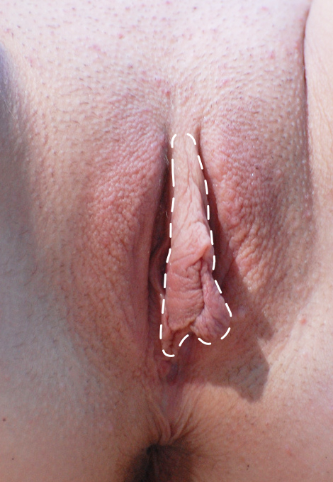 Human vulva. Labia minora outlined.